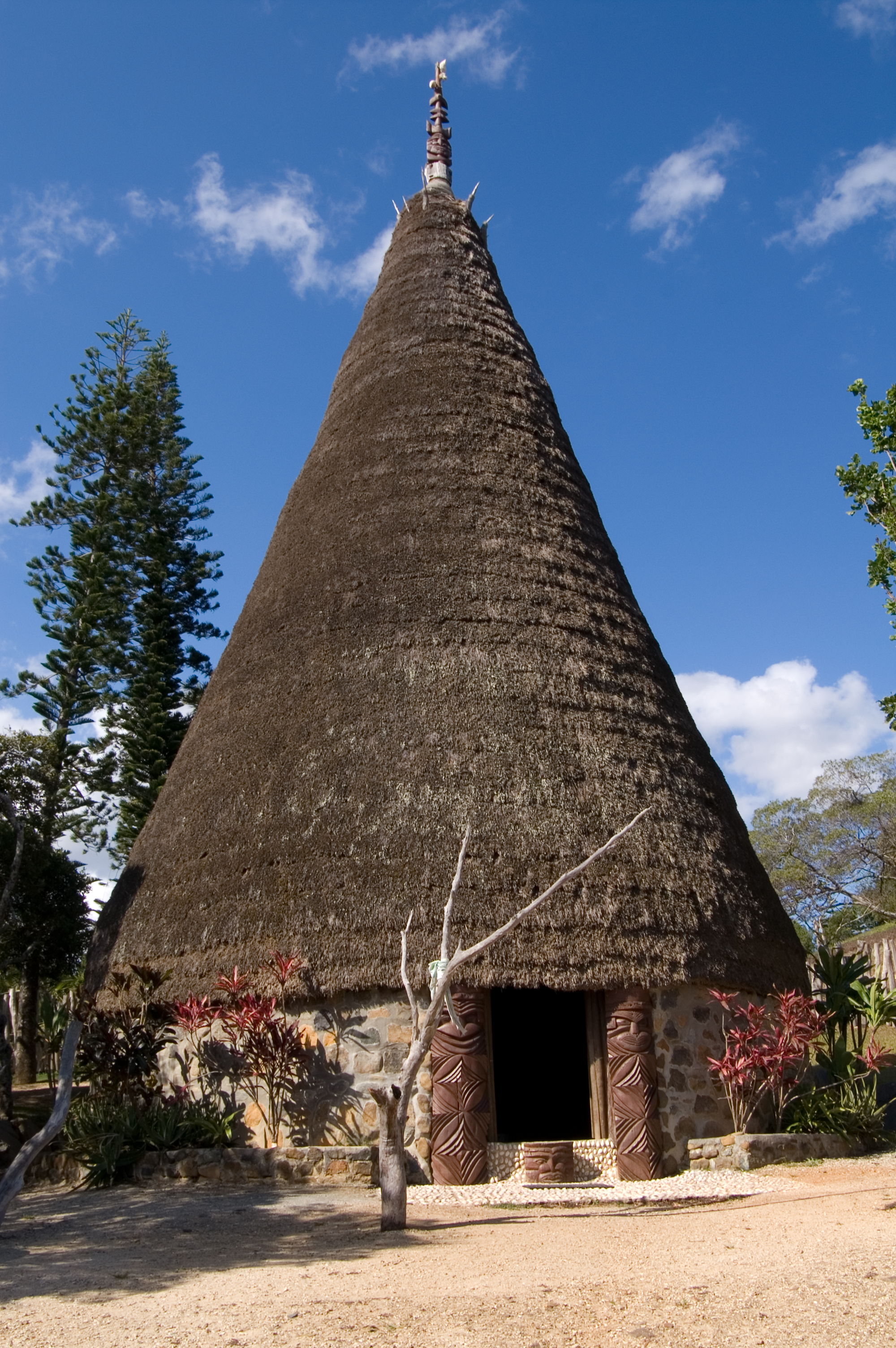 Kanak house with flèche faîtière. Tjibaou cultural center, Nouméa, New Caledonia.